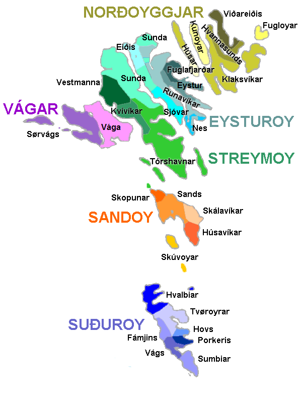 Map of the municipalities of the Faroe Islands, as of January 1, 2009.